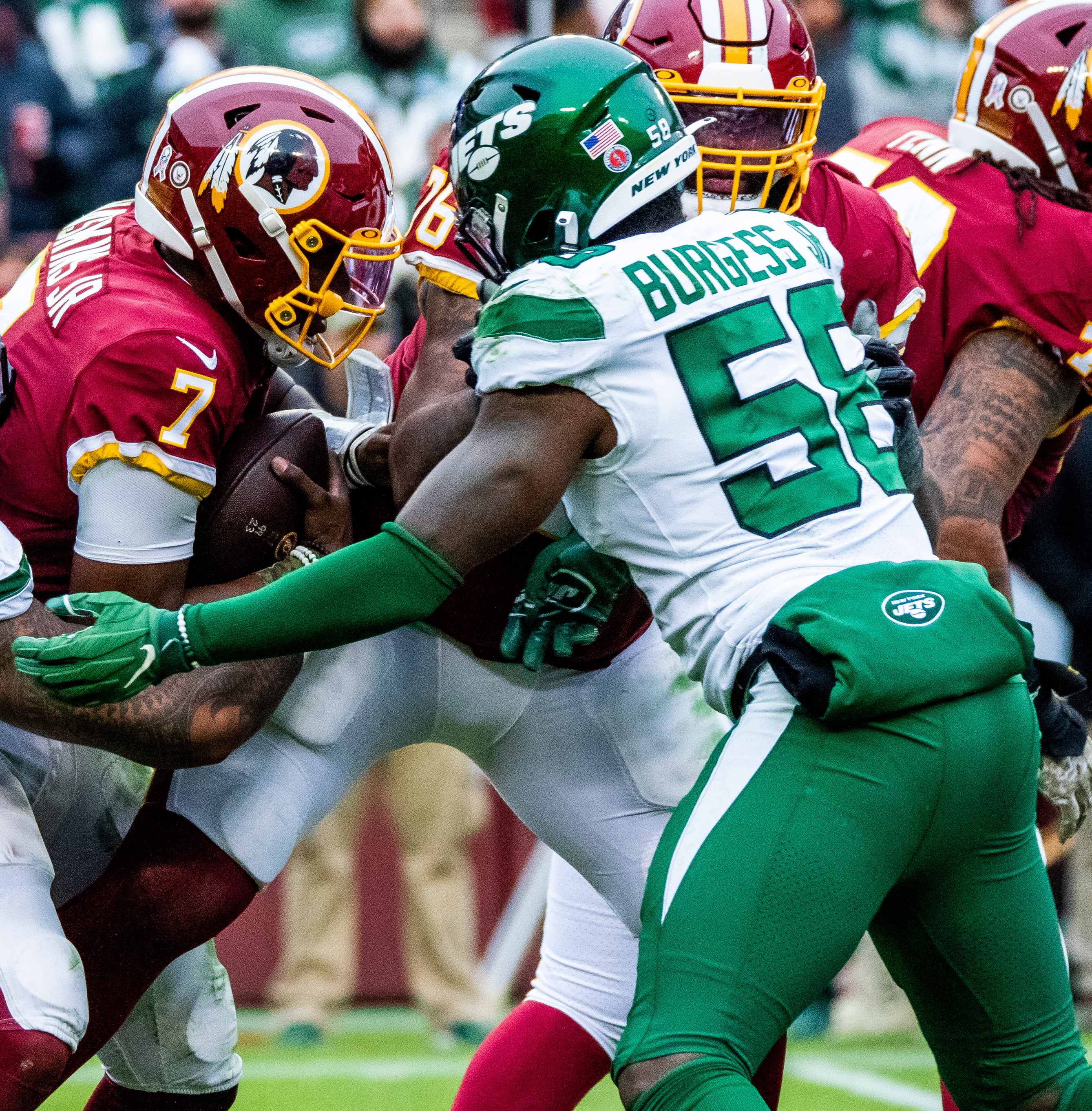 In 2019